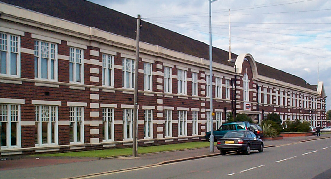 A factory frontage in Drews Lane, Ward End, Birmingham, England in October 2000. At the time the photo was taken, the factory was the main plant of the van maker LDV. Since the demise of LDV in 2008, this building has been demolished and the site cleared for redevelopment. The factory was built in 1913, During its life, the plant was used as: the assembly plant of Wolseley Motors until 1948 the transmission plant for the British Leyland (BL) Austin-Morris division from 1968 the van production for BL from 1972, evolving into Freight Rover the van production centre for the commercial vehicle company Leyland DAF from 1987 the van business for the independent LDV following the collapse of Leyland DAF in 1993